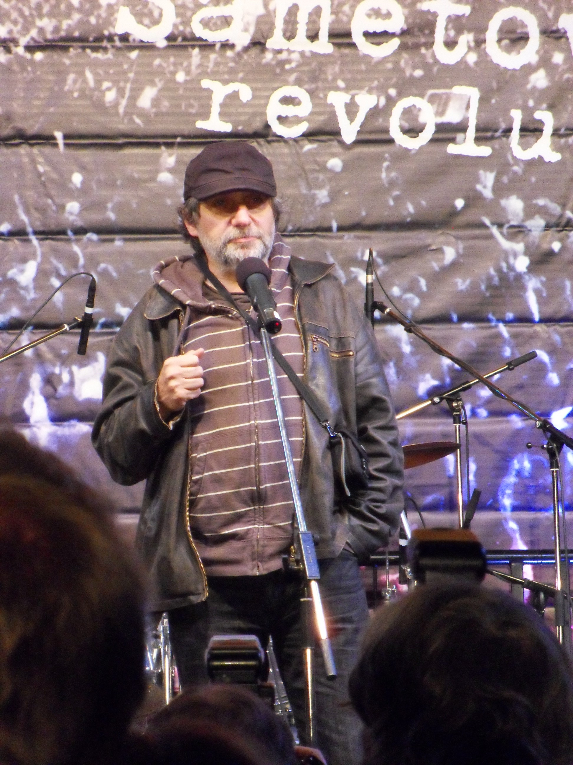 Břetislav Rychlík, czech actor and director